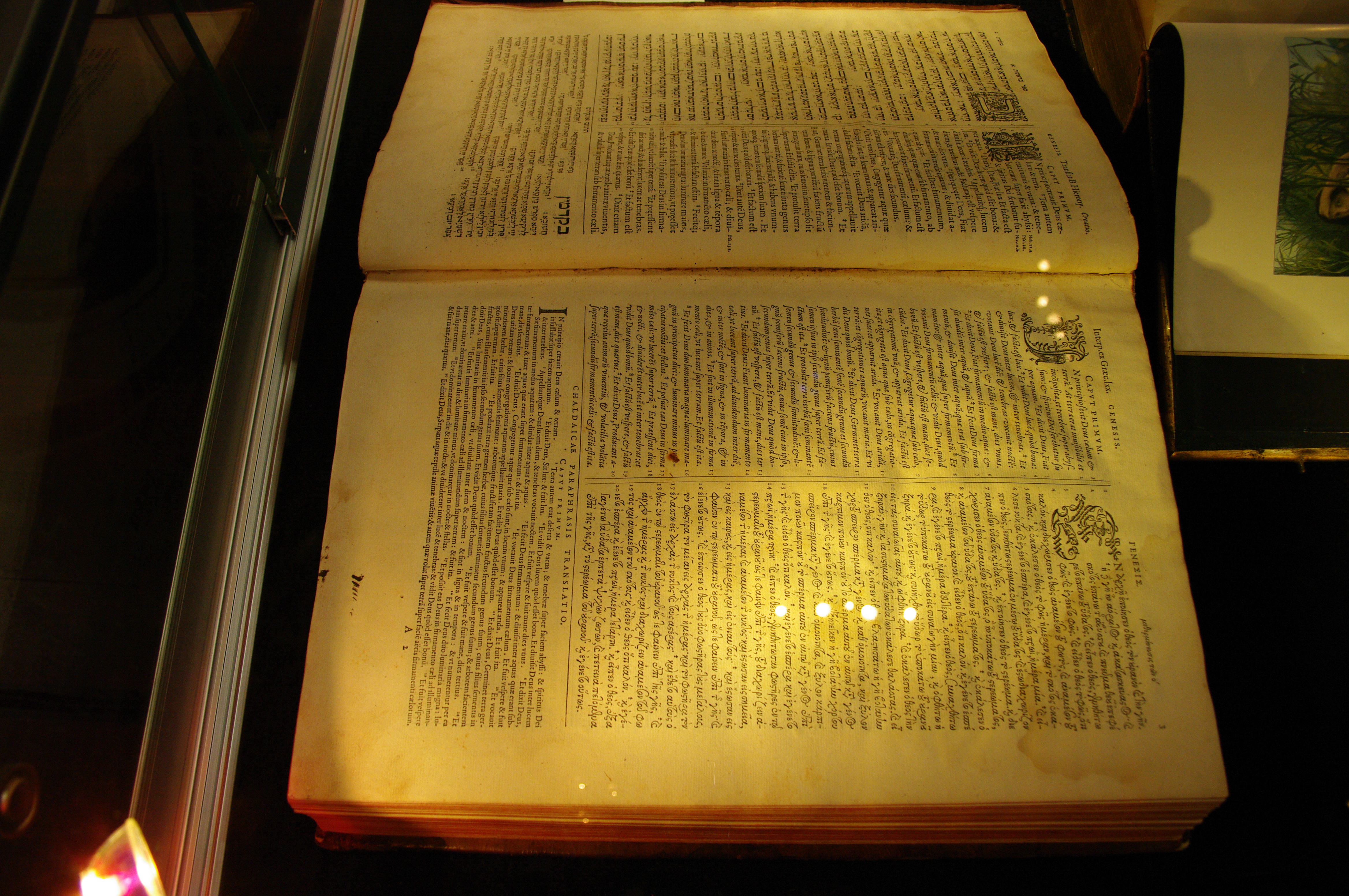 Photographs taken during Heritage Day Perth Western Australia Plantin Polyglot Bible published in Antwerp 1572, first volume open on Genesis 1. owned by the Benedictine monatery New Norcia, Western Australia